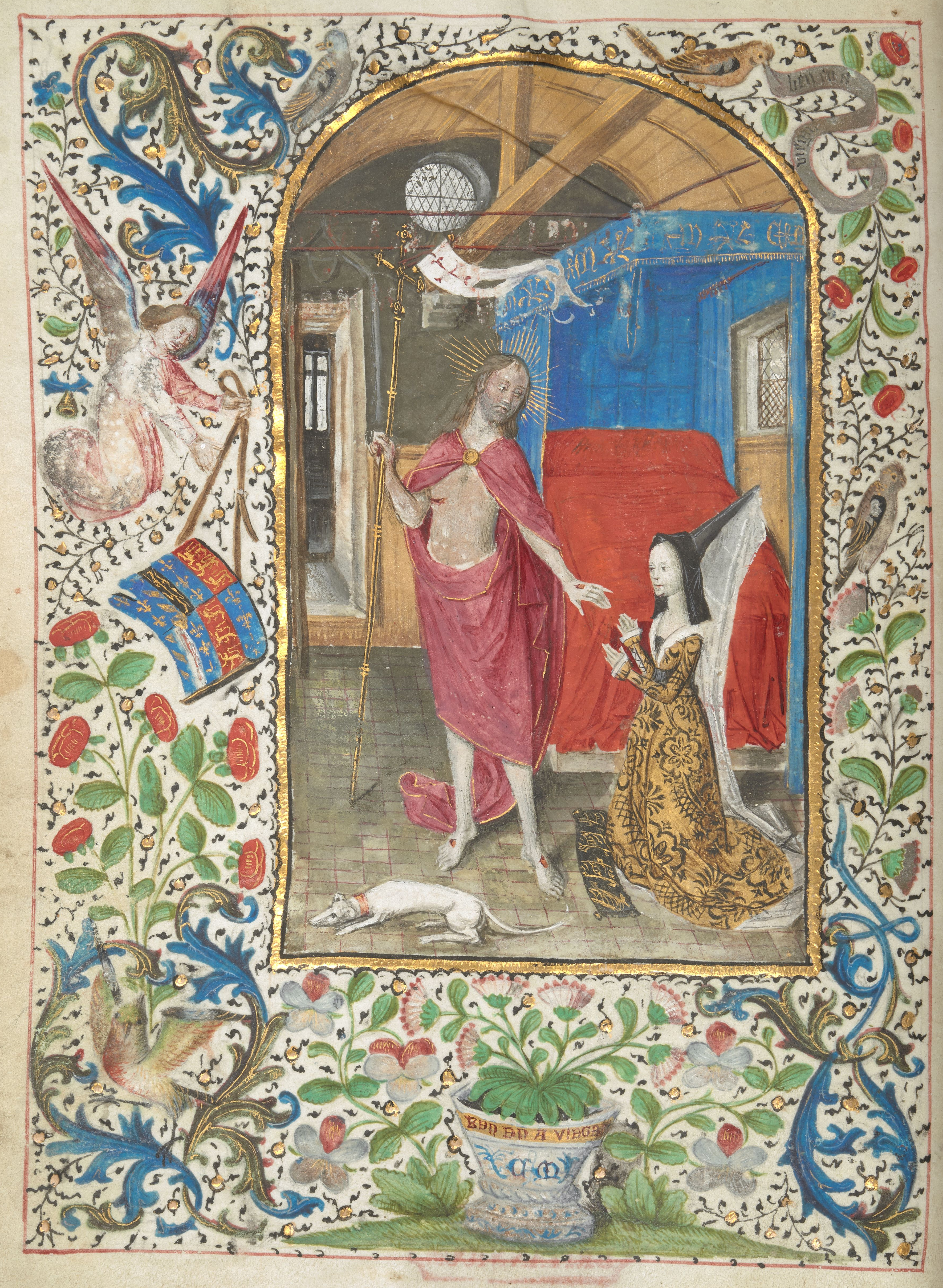 Illuminated miniature of Margaret of York before the resurrected Christ, MS Add 7970, f. 1v